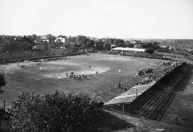 Panoramic view of the Neilson Field, home of the Rutgers college football team 1891-1938.